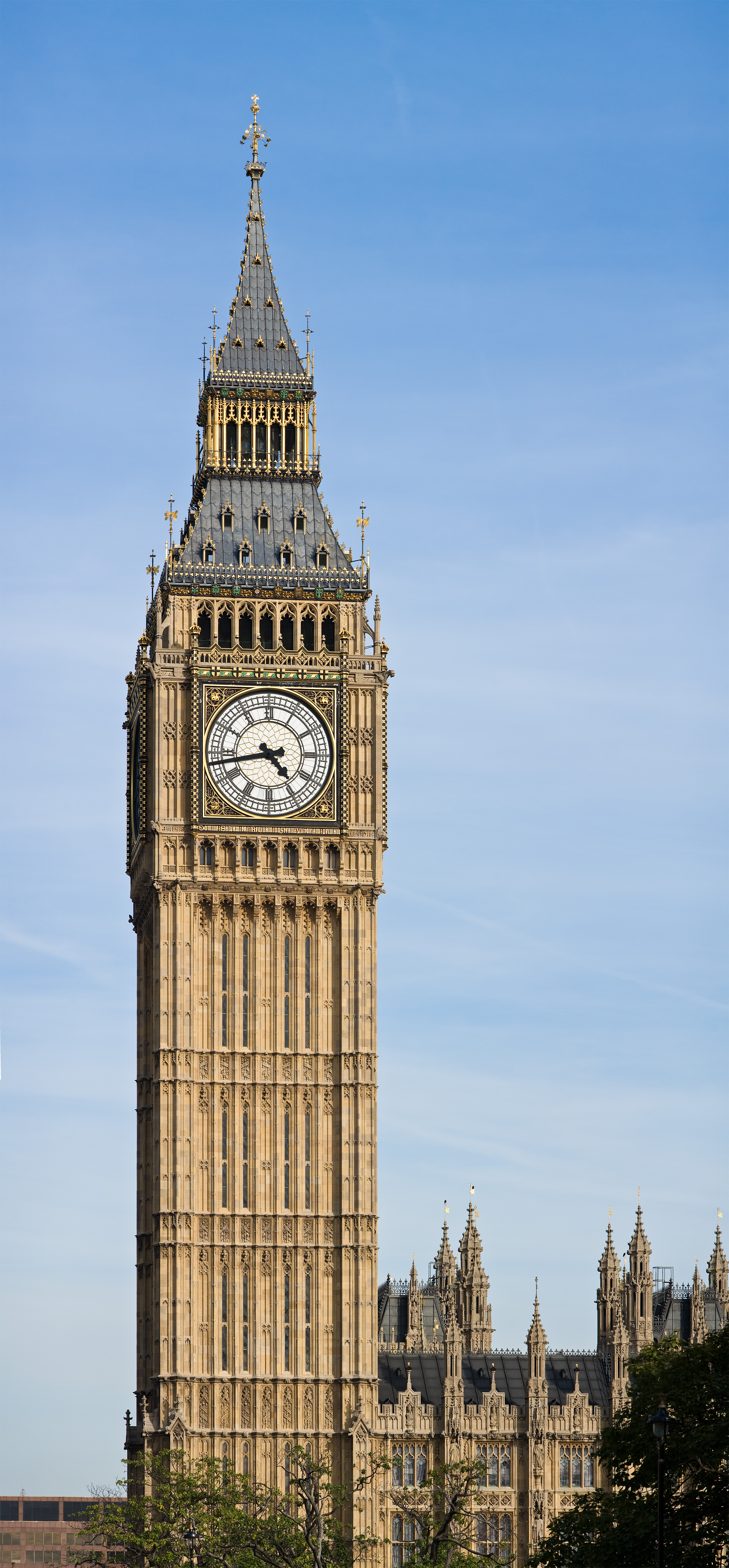 The Clock Tower of the Palace of Westminster, now known as Elizabeth Tower but colloquially known as "Big Ben", in Westminster, London, England.